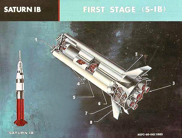 1. Spider beam 2. Cable tunel 3. 8x H-1 Engines 4. Instrument compartment (typical F-1 & F-2) 5. Anti-slosh baffles (8x70 dia. tanks) 6. 1x105 dia.LOX tank 7. Firewall 8. Heat shield